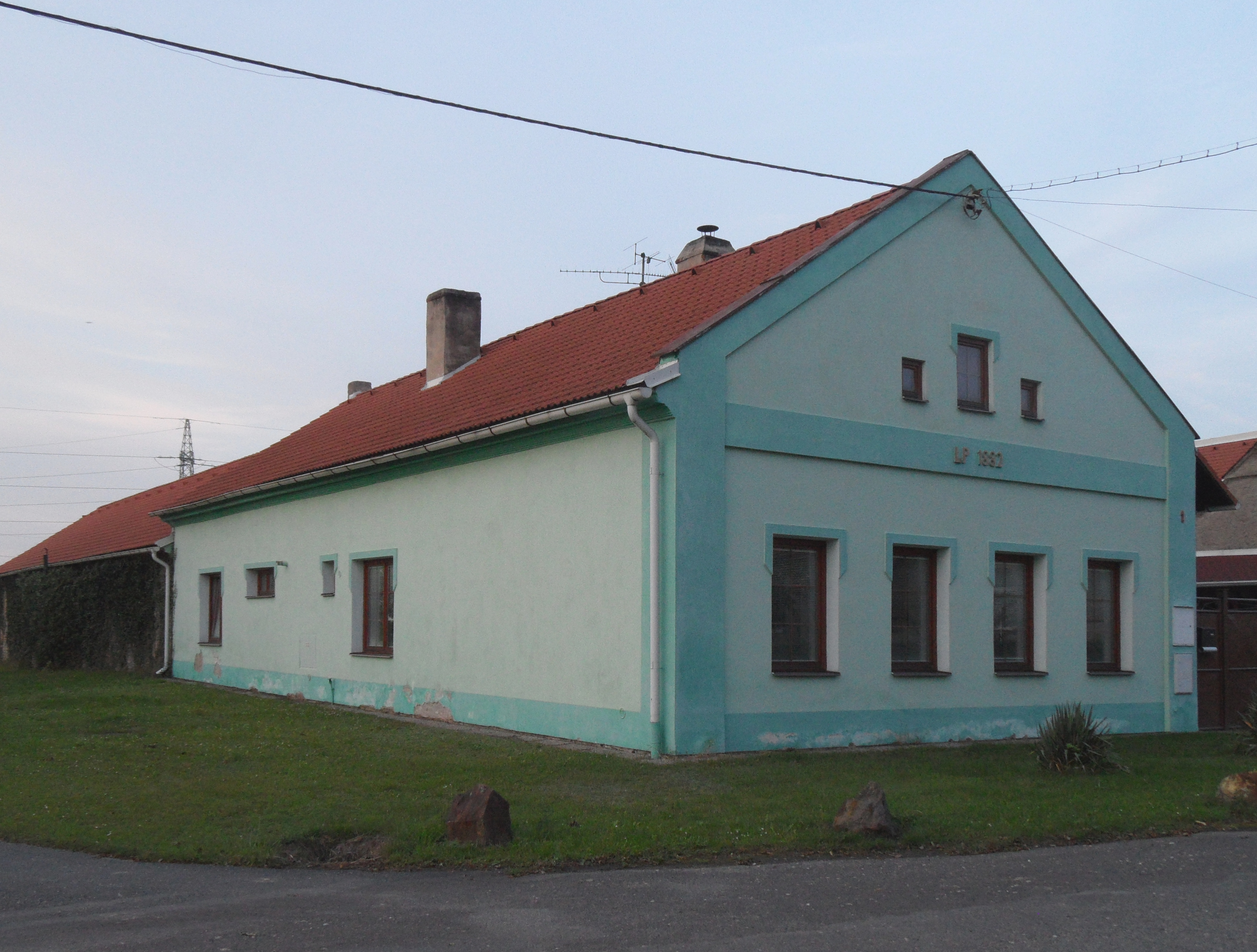 Sendražice (Kolín) F. House near Crossroads from Year 1882, Kolín District, the Czech Republic.